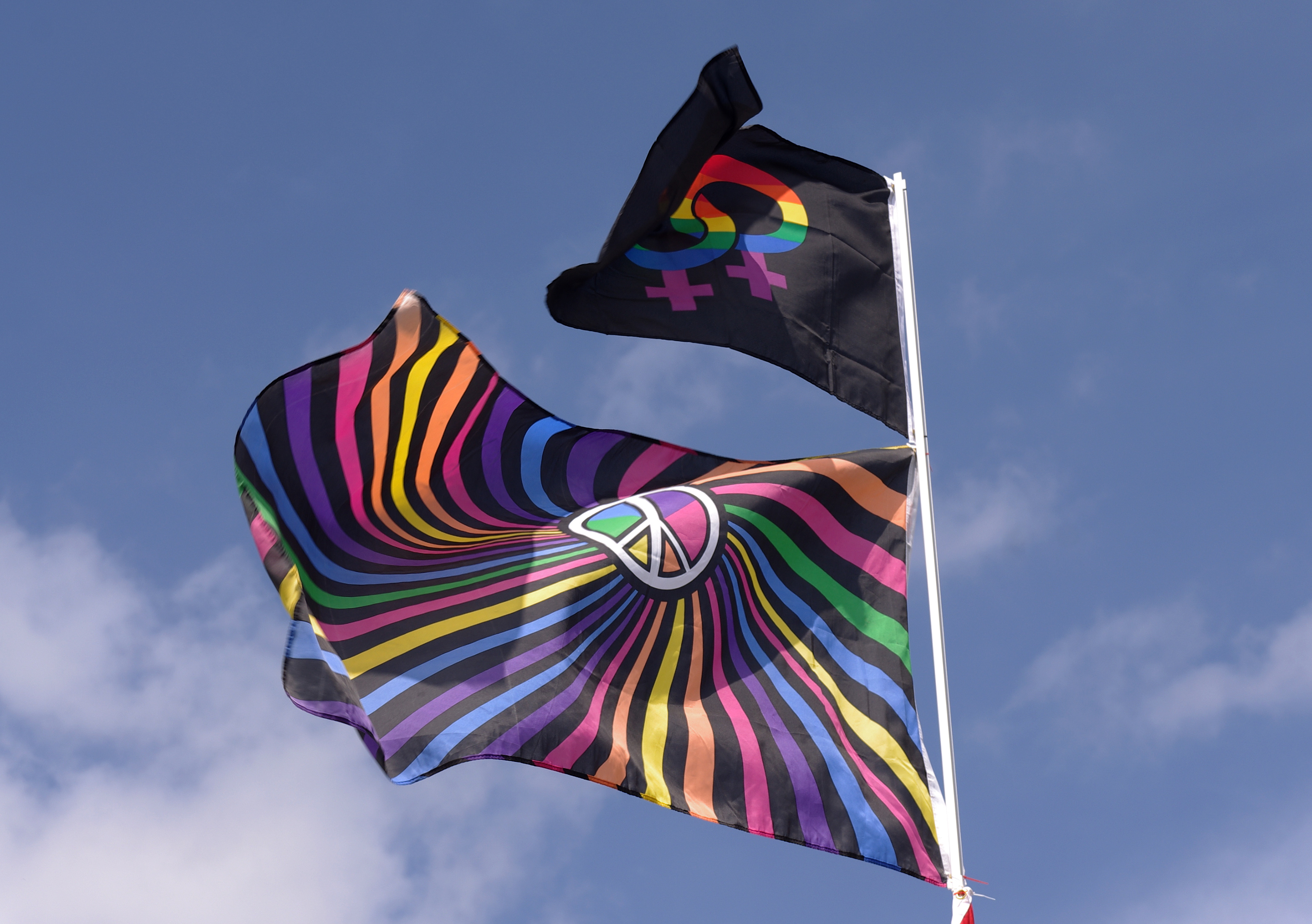 Flags at Nottinghamshire Pride 2011.